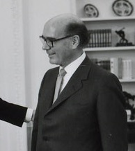 Hugo B. Margáin cropped from another photo